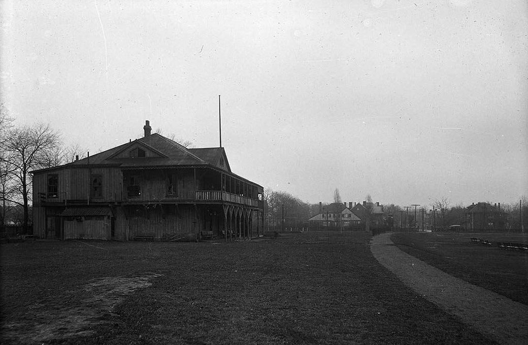 Rosedale field clubhouse owned by Rosedale Golf Club, Toronto, Ont. November 30, 1921. City of Toronto Archives, Forms part of Fonds 1231; James Salmon collection. Copyright is in the public domain and permission for use is not required.